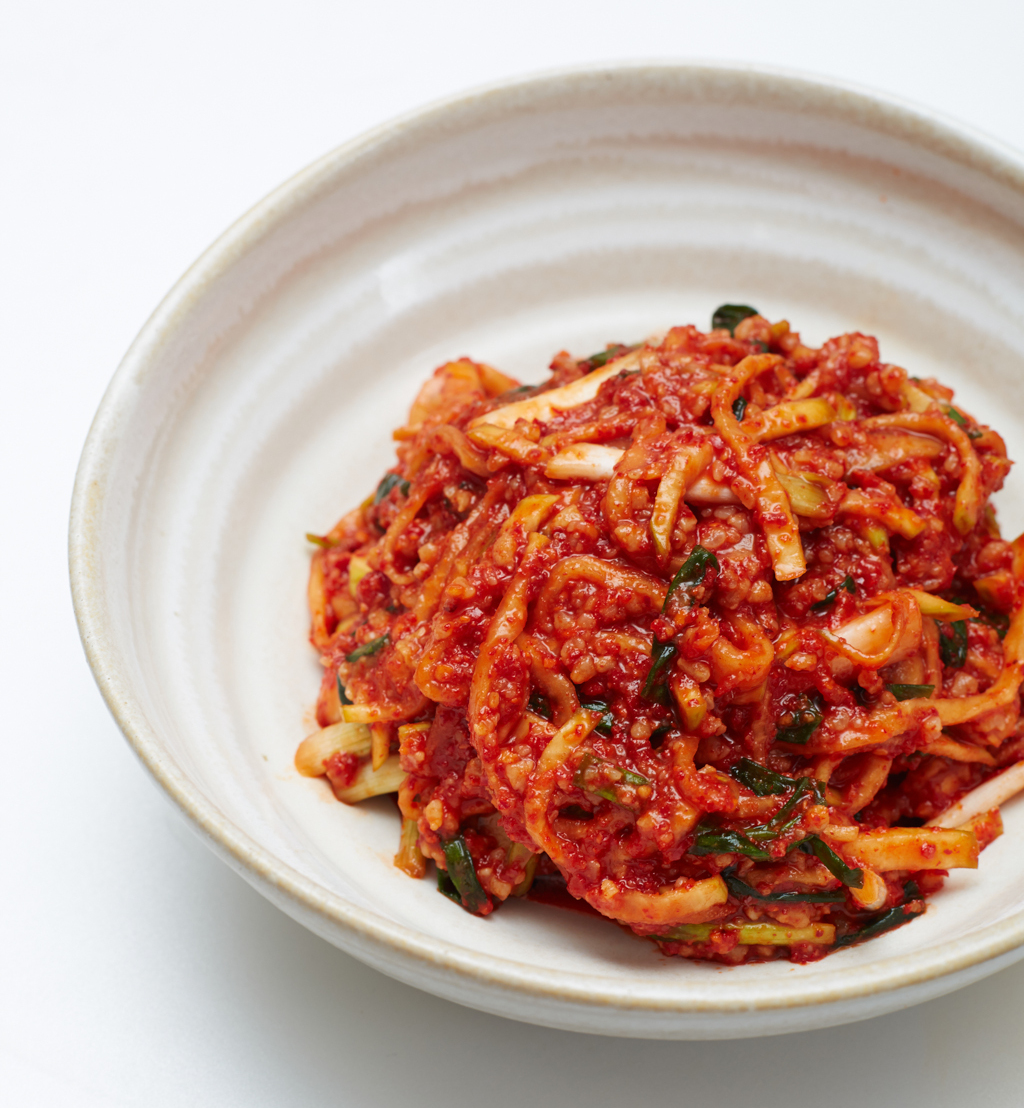 Kimchi filling